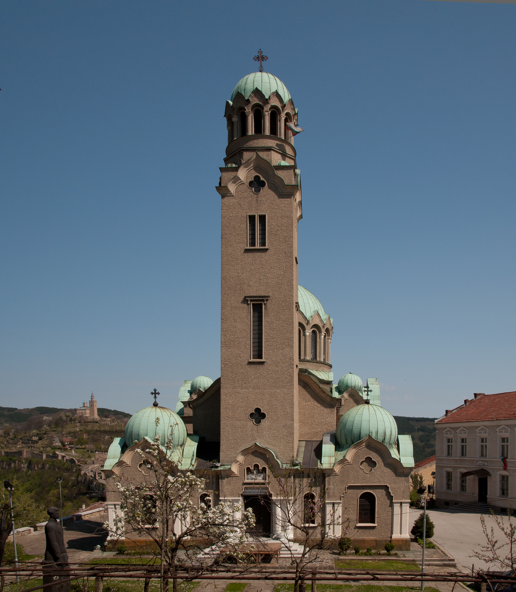 Veliko Tarnovo Cathedral, Bulgaria. Completed in 1844 and reconstructed in 1913.